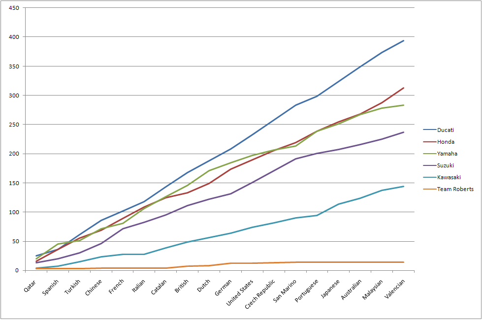 Graph showing the point progress of constructor competing in the F.I.M Road Racing World Championship in class MotoGP in season 2007